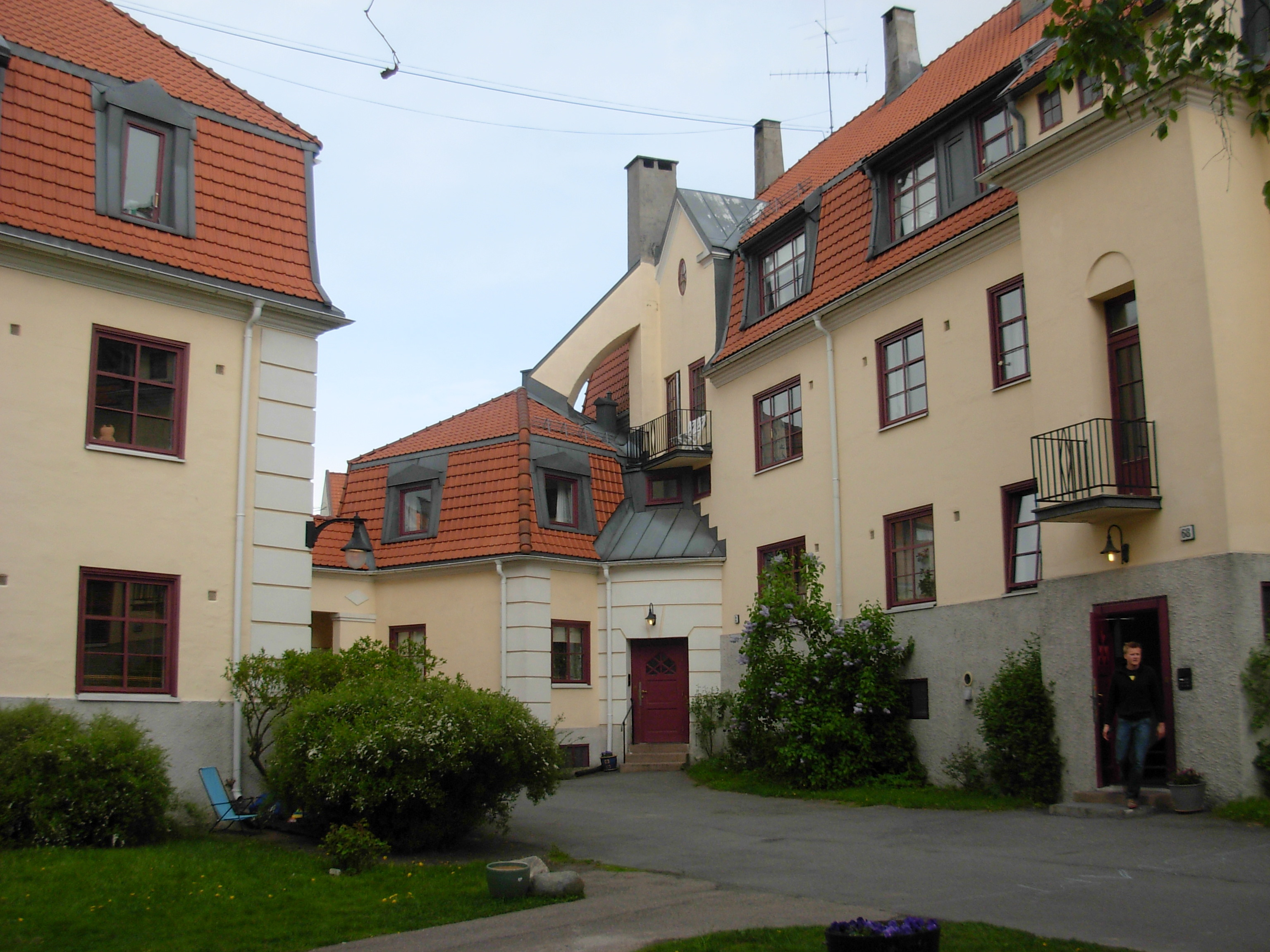 Apartment blocks at Lindern, Oslo.